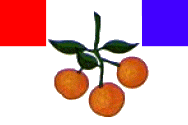 Flag of Lija, Malta